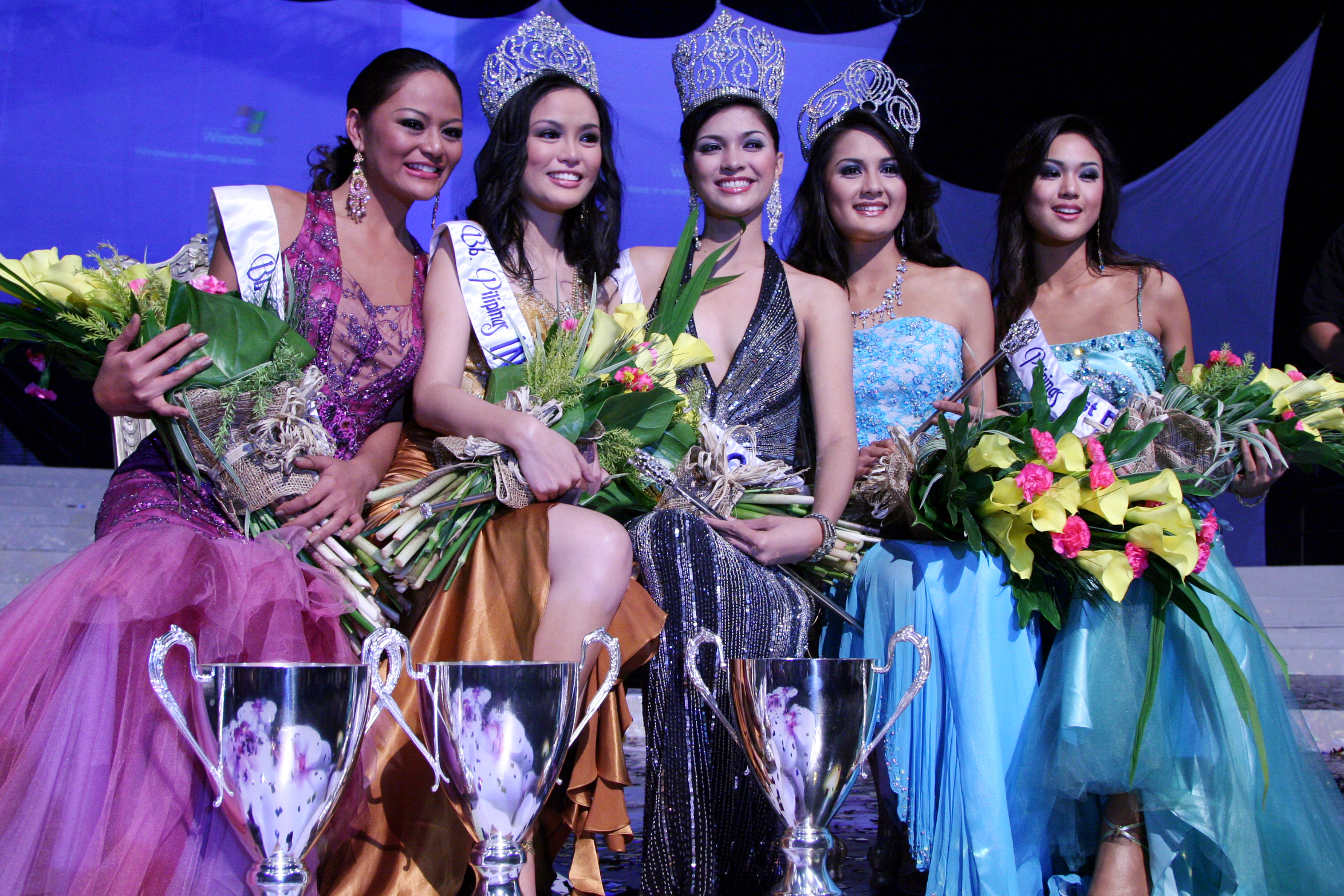 the final result of Binibining Pilipinas 2008: Jennifer Barrientos Bb. Pilipinas 2008 - Universe Patricia Fernandez Bb. Pilipinas 2008 - International Janina San Miguel Bb. Pilipinas 2008 - World Danielle Castano Bb. Pilipinas 2008 - 1st Runner-up Elizabeth Jacqueline Nacuspag Bb. Pilipinas 2008 - 2nd Runner-up